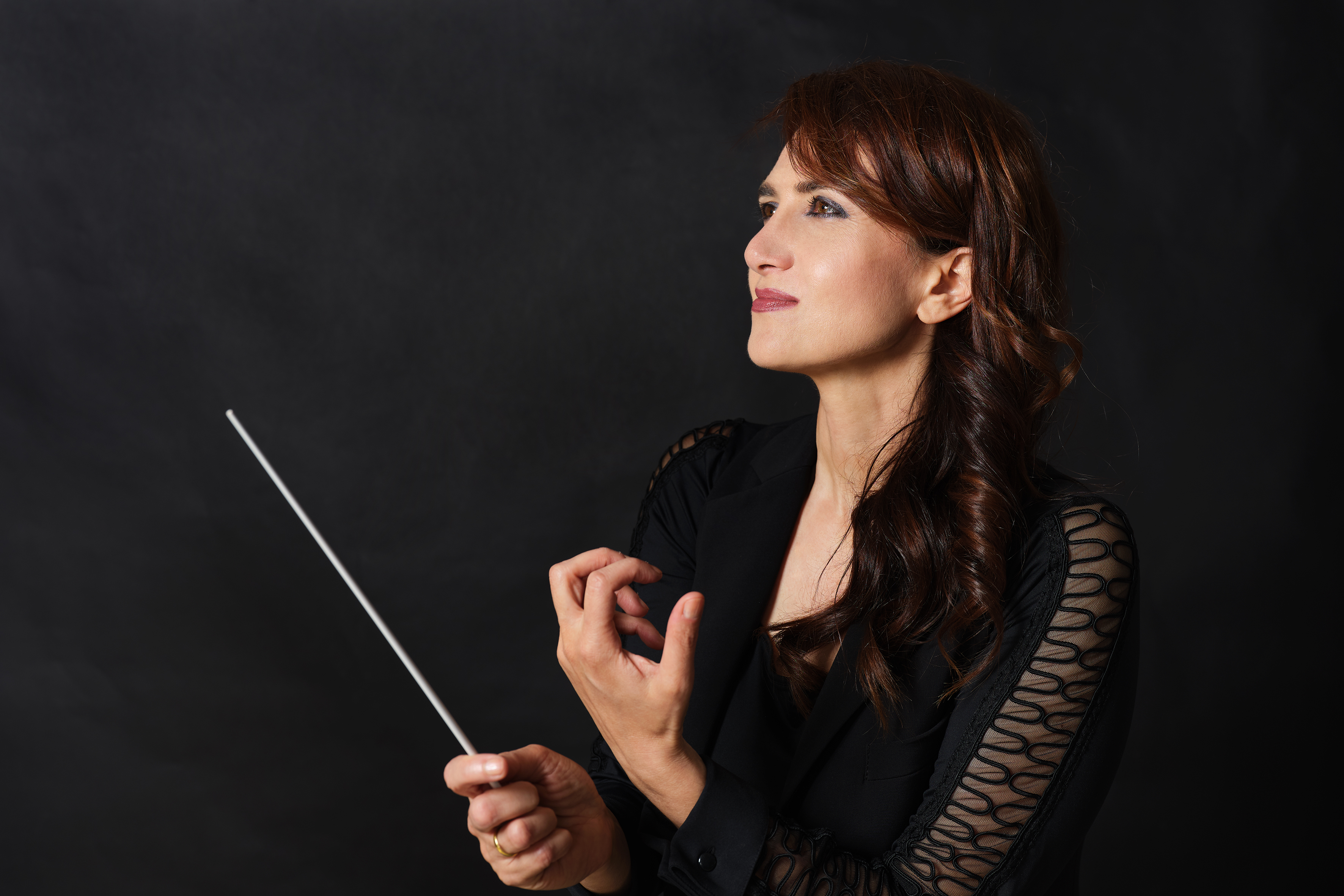 Orchestra Conductor